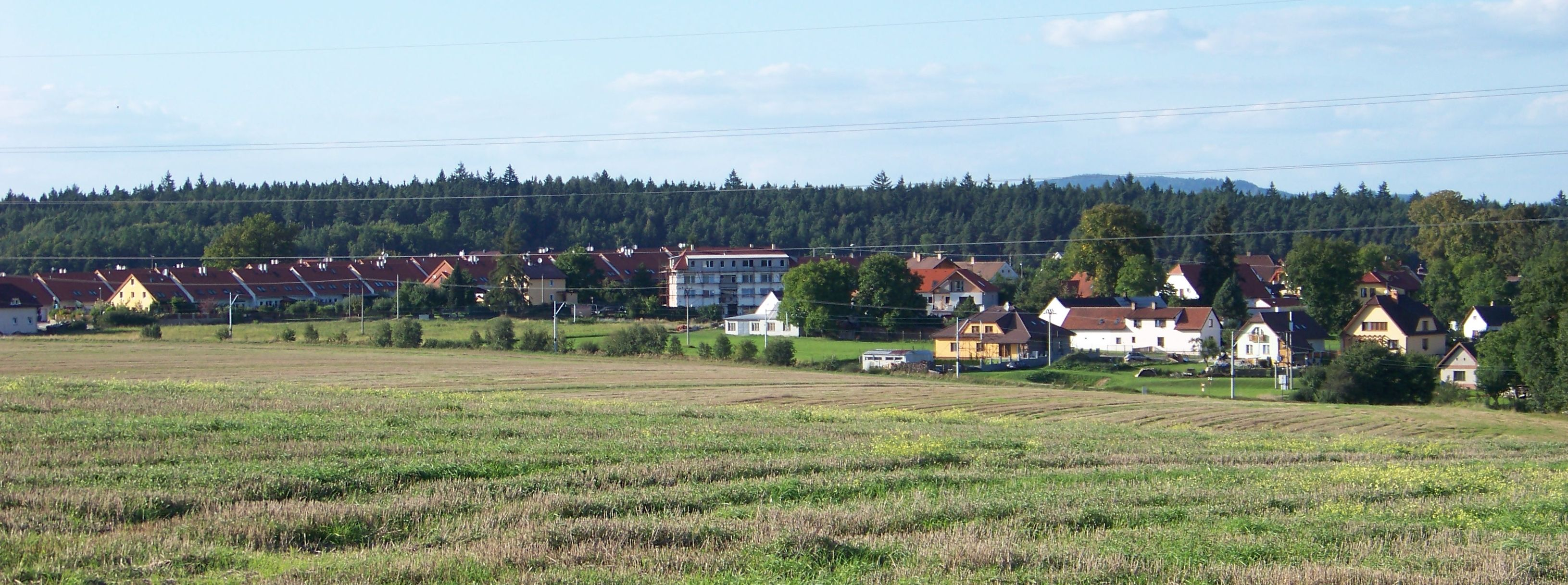 Tábor-Horky, Tábor District, South Bohemian Region, the Czech Republic. Staré Horky seen from Dolní Větrovy. - OpenStreetMap(Info)